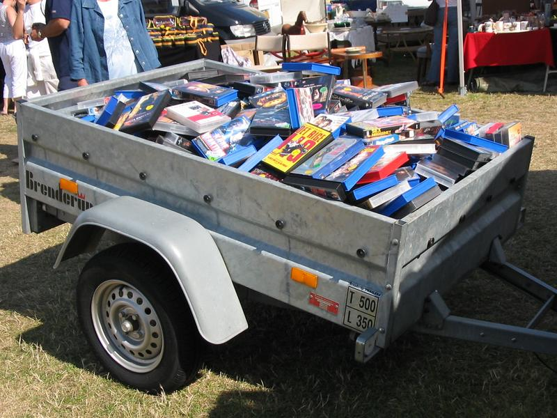 Fate of videotape (Obsolescence)